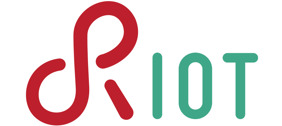 The logo of RIOT Operating System.